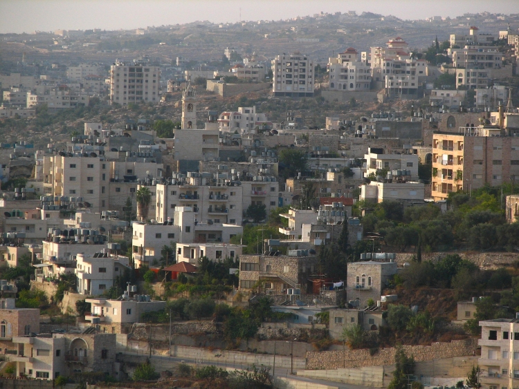 Beit Jalla, viewed from Haanafa Street, Gilo.